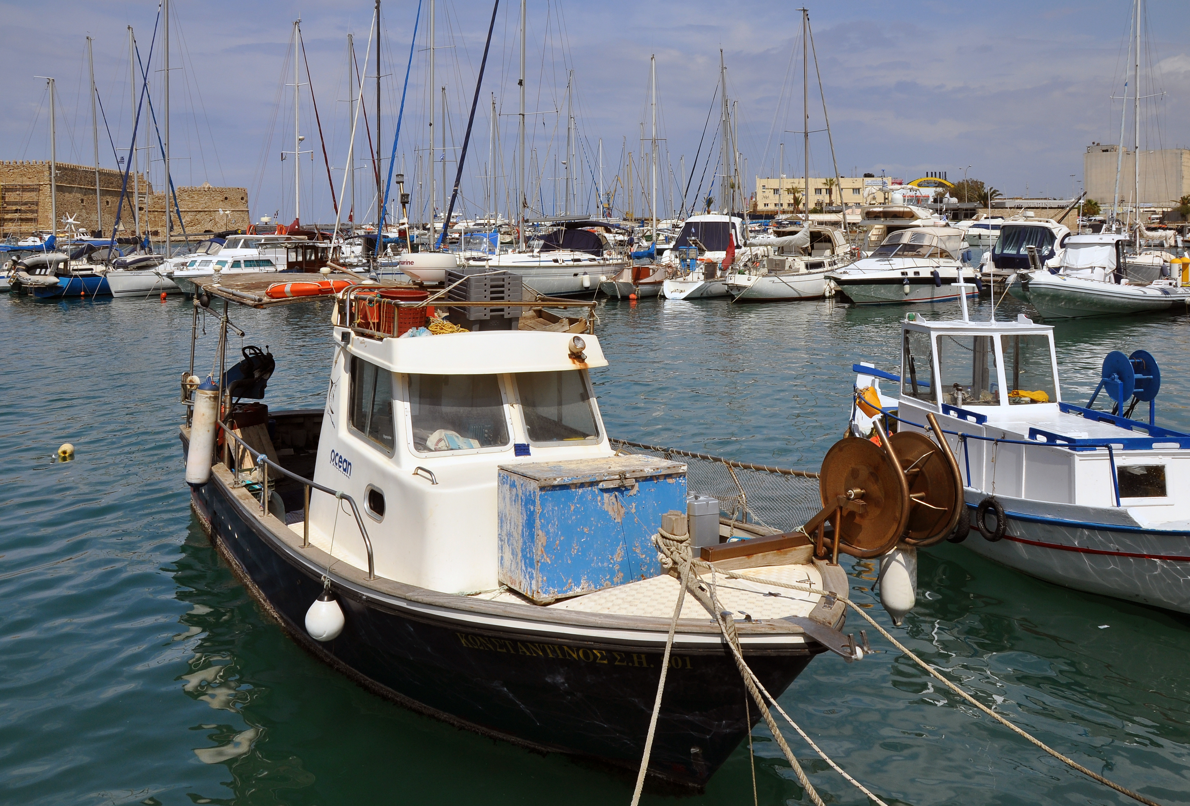 Fishing boats and marina in the old harbour of Heraklion at the north cost of Crete in Greece.